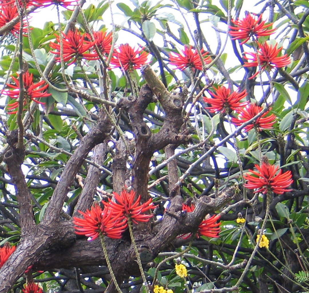 Erythrina speciosa. Note: only the red flowers are from Erythrina speciosa. The green leaves and the yelow flowers aren't.